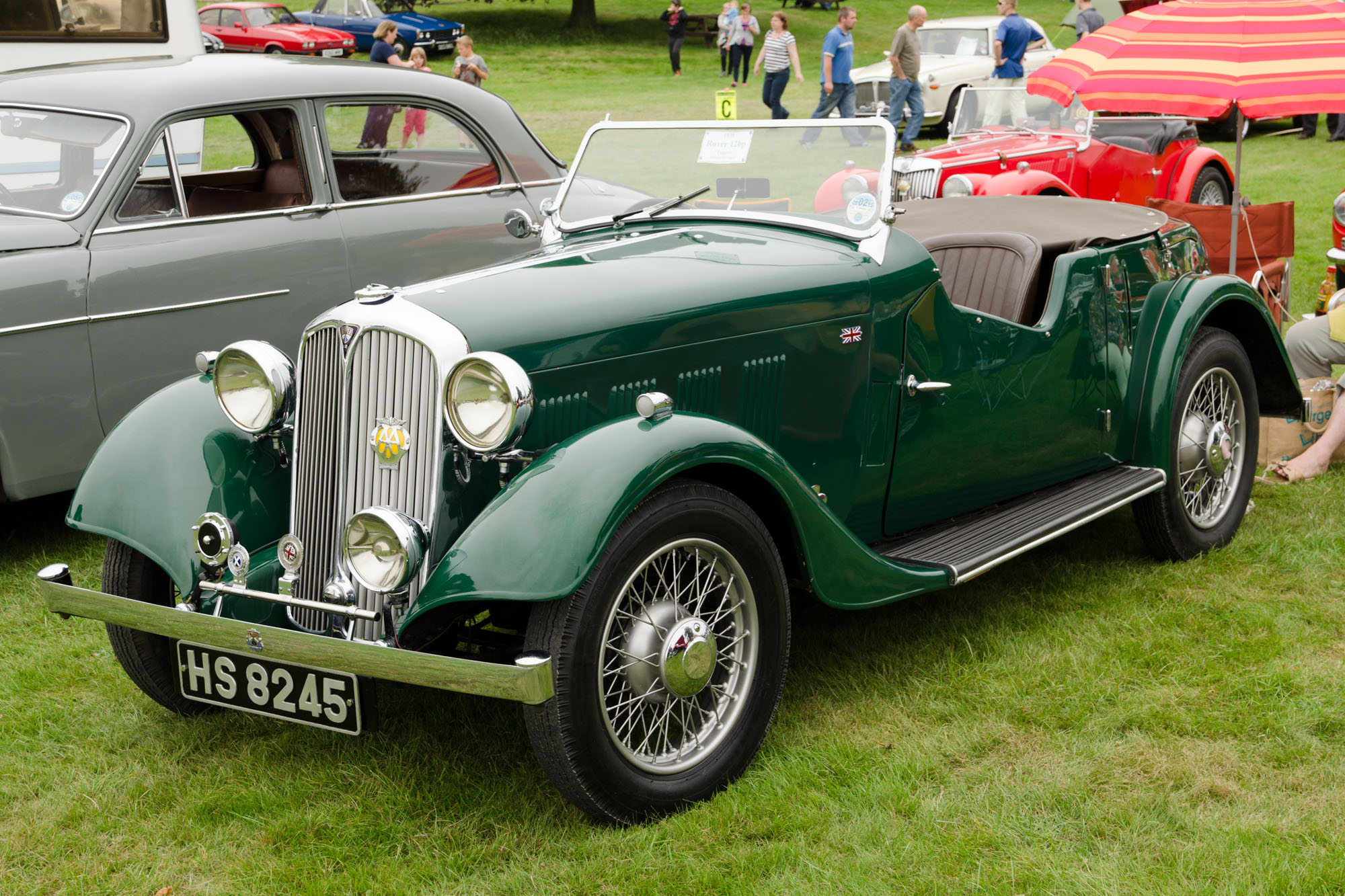 1935 Rover 12 Tourer (DVLA) first registgered 23 March 1935, 1308 cc Bodelwyddan Classic Car Show 20/07/2014